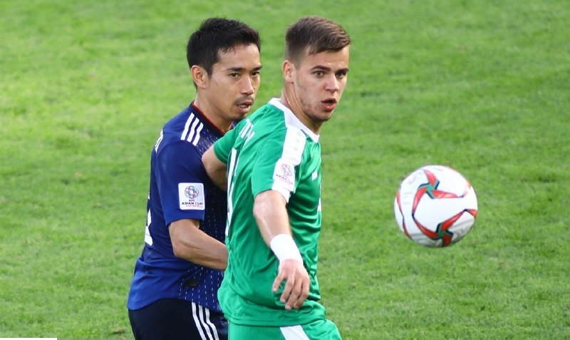 Japan & Turkmenistan Group F match, 2019 AFC Asian Cup. In photo Mihail Titov.